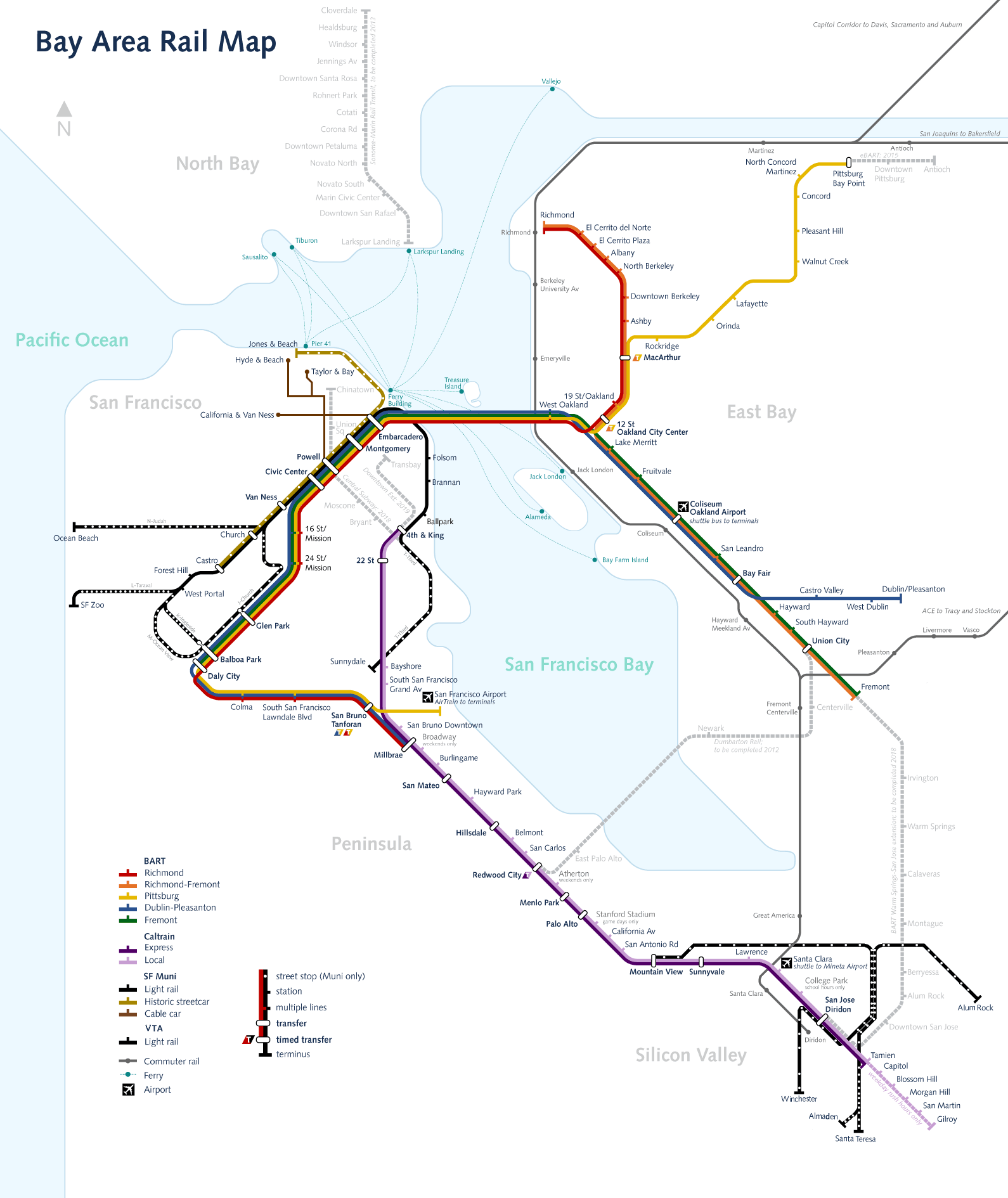 Map of the San Francisco Bay Area's rail and rapid transit network.